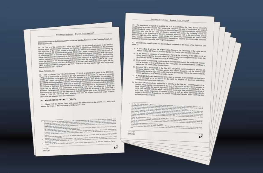 Reform Treaty – In place of the EU Constitution, a Reform Treaty, to be drafted from this 16-page mandate agreed upon during the June 2007 EU summit, amends existing EU Treaties